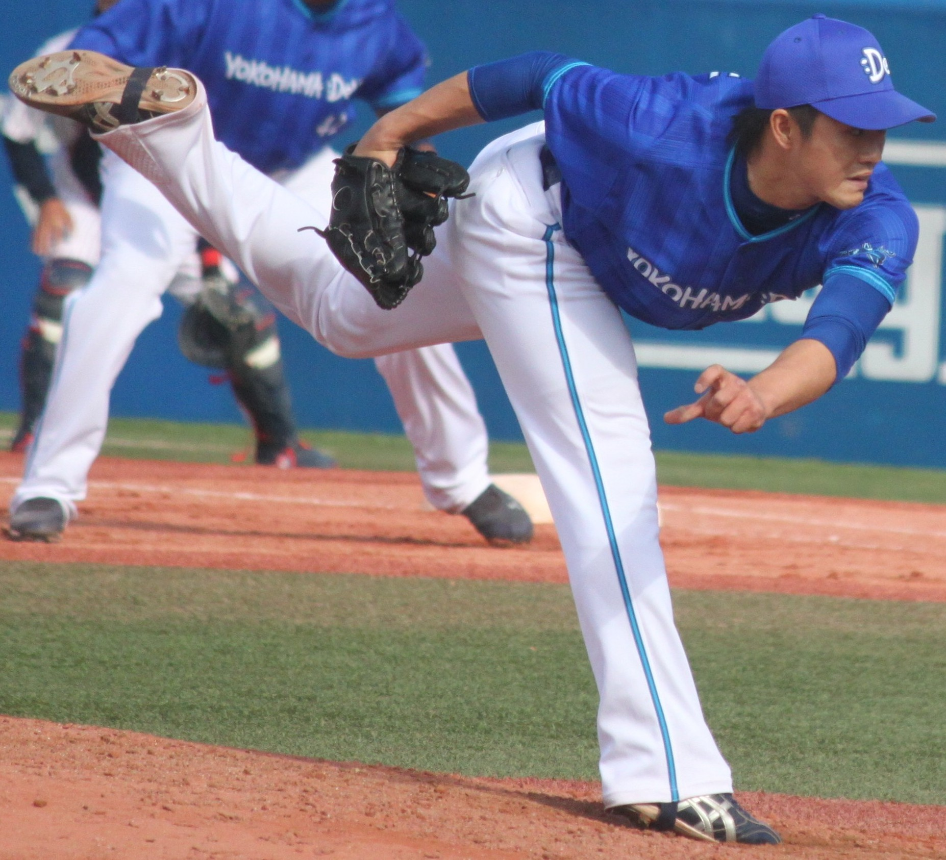 Shoma Sato, pitcher of the Yokohama DeNA BayStars, at Meiji Jingu Stadium.